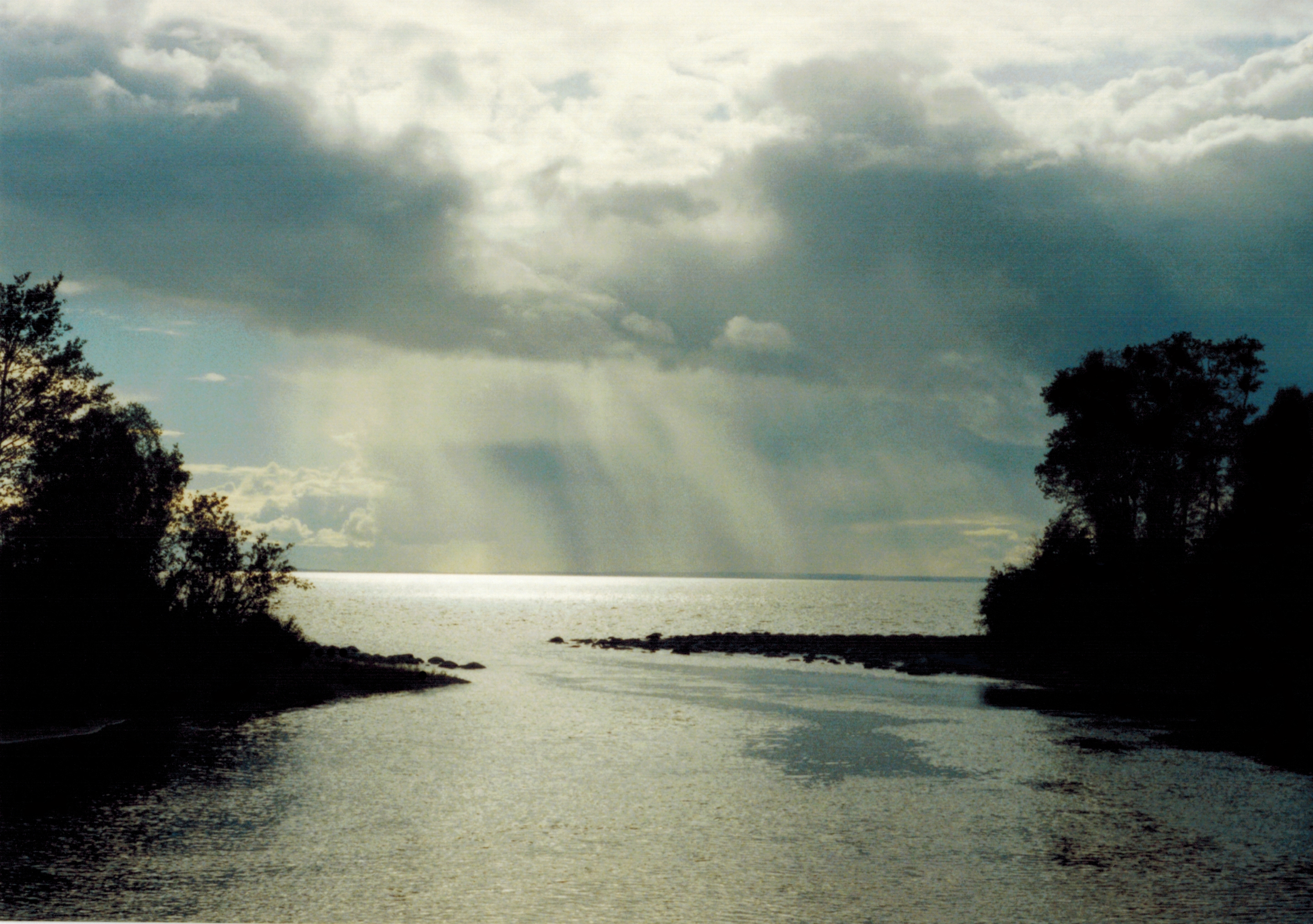 Cold Lake (Alberta and Saskatchewan) viewed from Meadow Lake Provincial Park, Saskatchewan. Scanned from photo taken 1999-07-31.